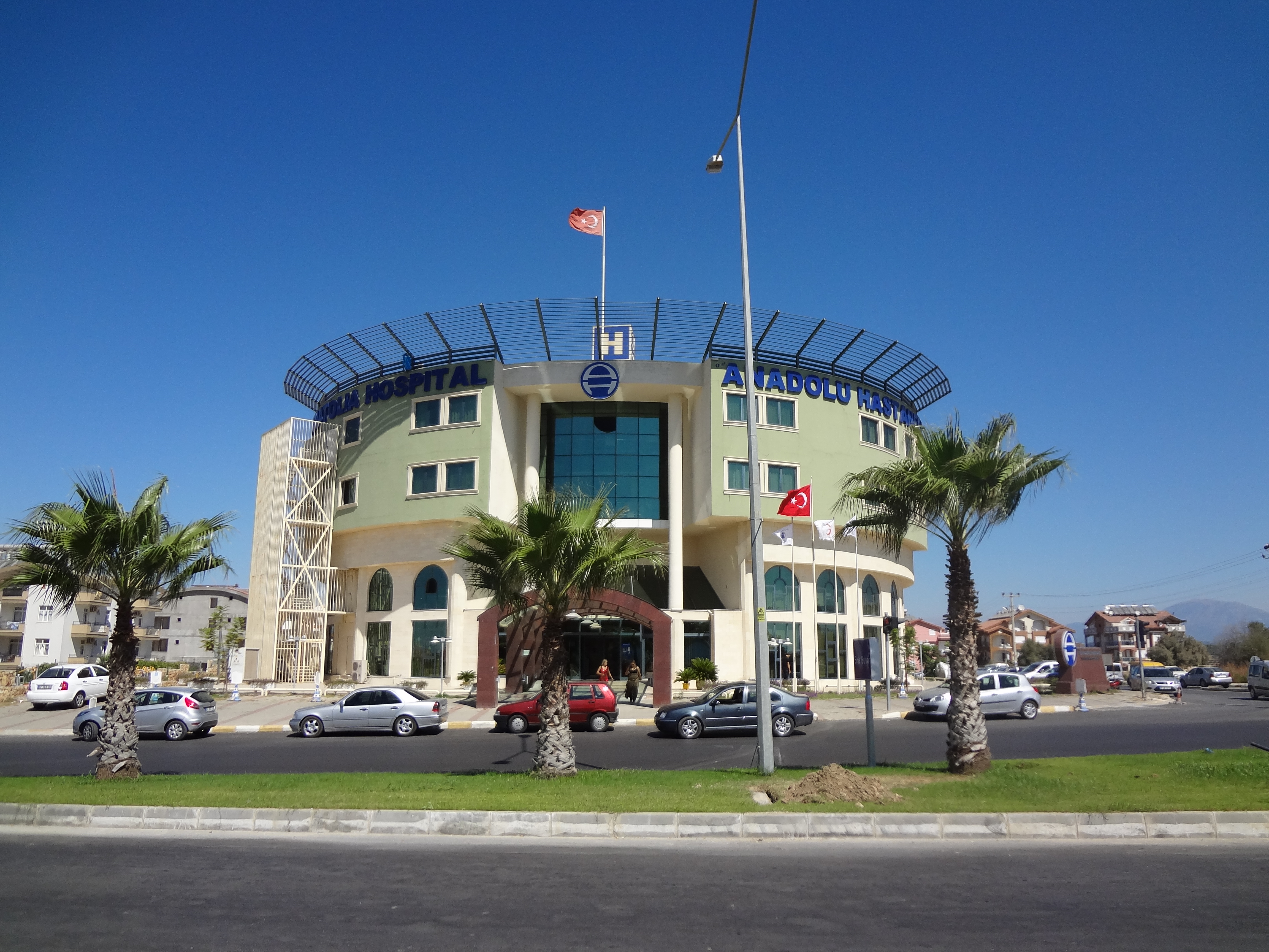 Side Hospital.